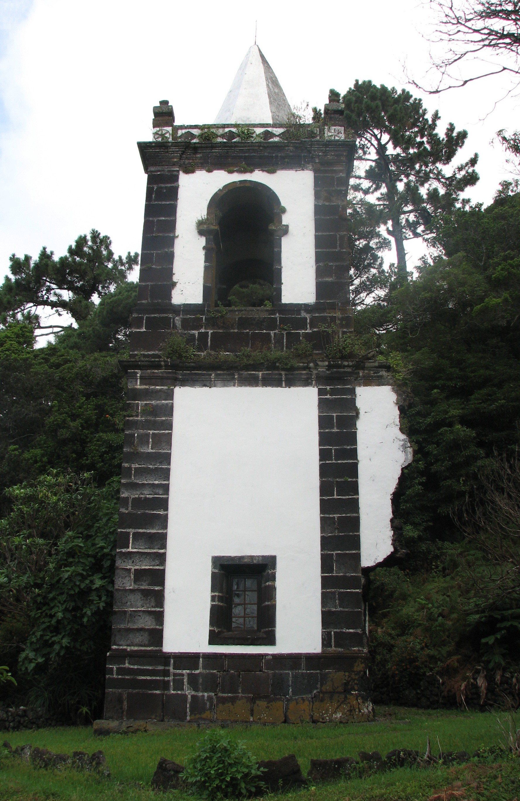 The old church tower of Urzelina, São Jorge, Azores. In 1808, lava from an eruption on the mountain above reached the church, leaving just the tower standing. The trees in the background cover the front of the old lava flow.